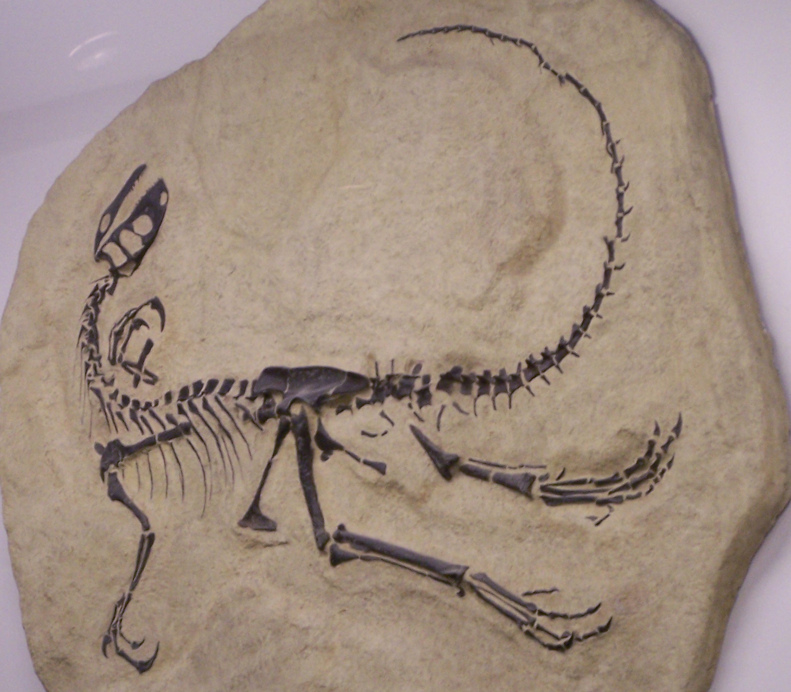 Tanycolagreus species reconstruction